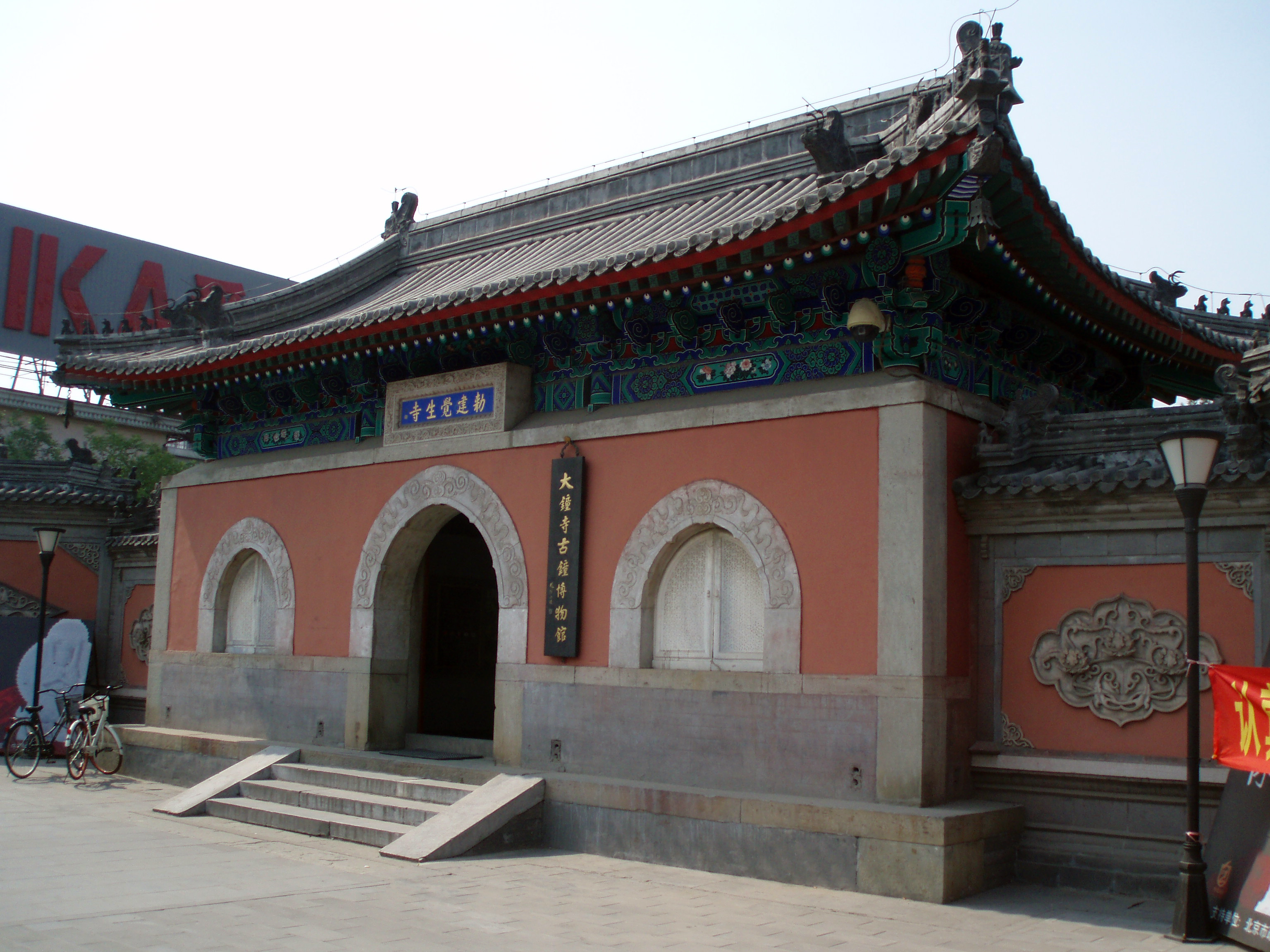 Entrance of the Big Bell Temple, Beijing. 中文（香港）: 北京大鐘寺山門。